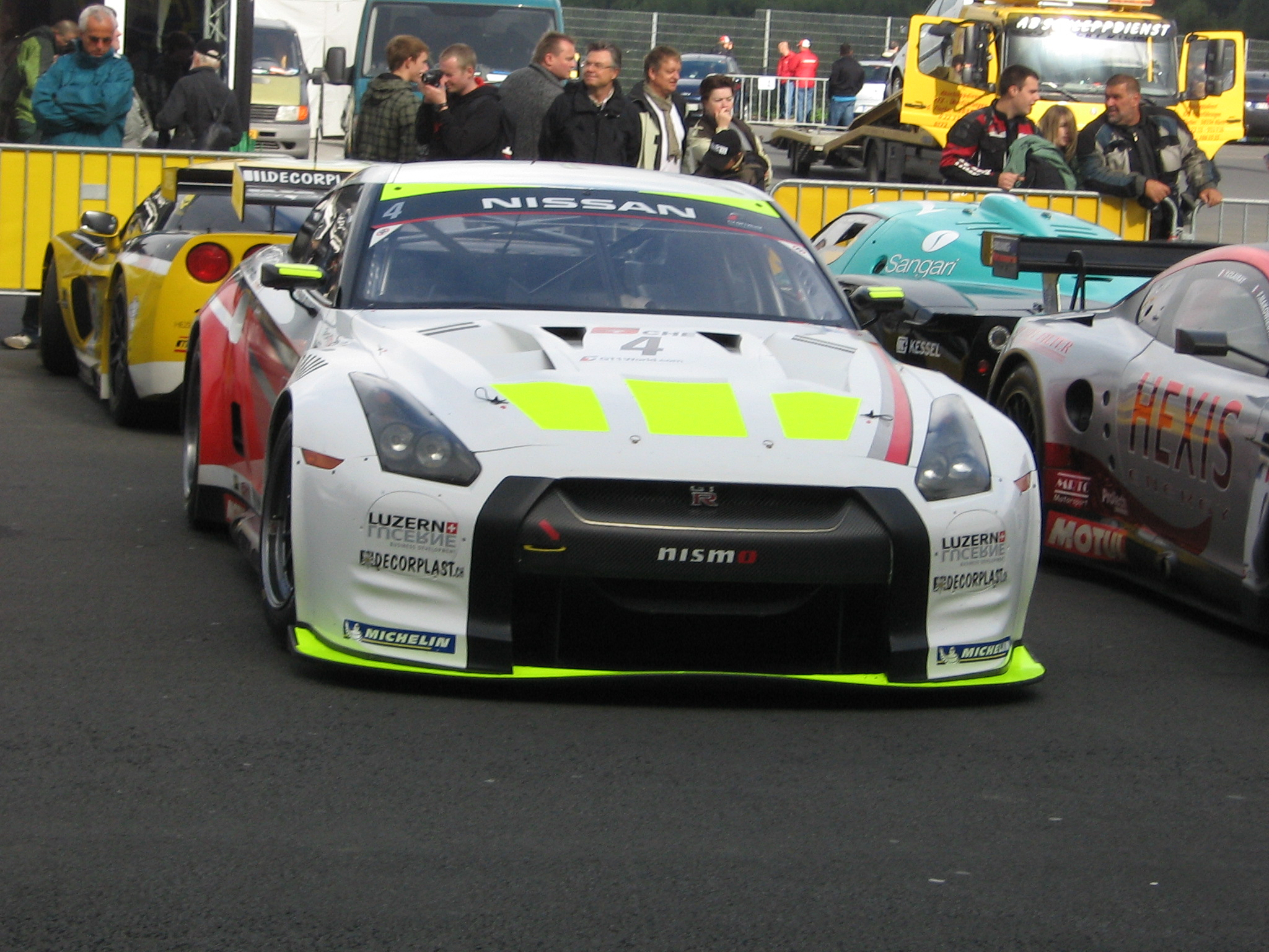 The Nissan GT-R Nr.4 from the FIA GT 1 World Championship